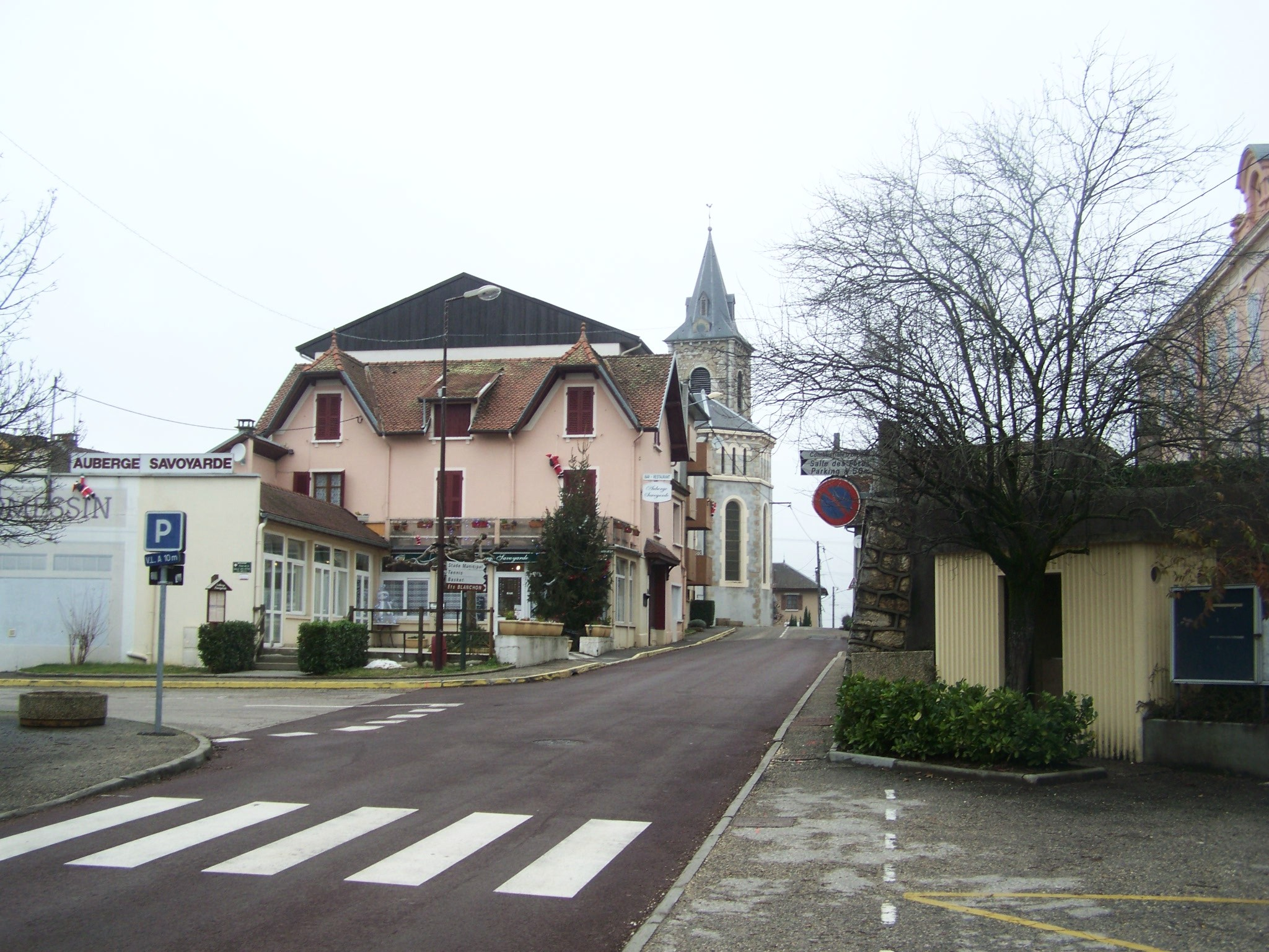 Center of French commune of Domessin in Savoie.